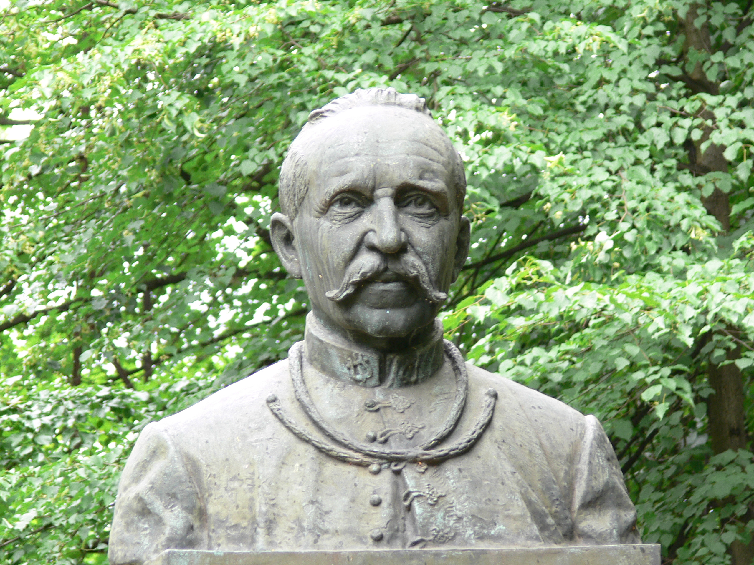 Bust of Frantisek Kmoch in Kolin (Kmoch Island)